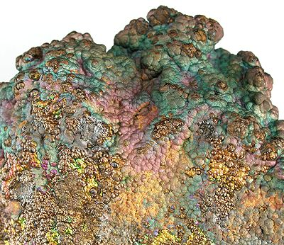 Hematite Locality: Crowders Mountain Iron Prospect, Kings Mountain District, Gaston County, North Carolina, USA (Locality at ) Size: 19.7 x 14.2 x 6.2 cm. Collector Harold Urish bought this in a rock shop while traveling, in 1975. It is a very attractive, large, rolling matrix of rock coated with botryoidal hematite. Oxidation has given the hematite a varied surface color composition, and it is bright and metallic looking, making for a very dramatic display specimen. From the well-known Tucson collection of 40-year collector, Harold Urish.